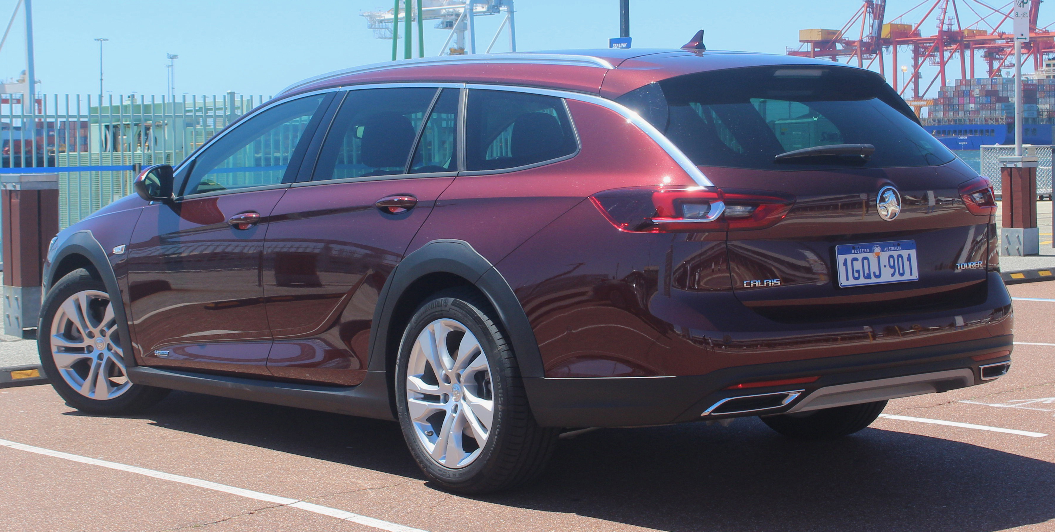 2018 Holden Calais (ZB MY18) V6 AWD Tourer. Photographed in Fremantle, Western Australia, Australia.